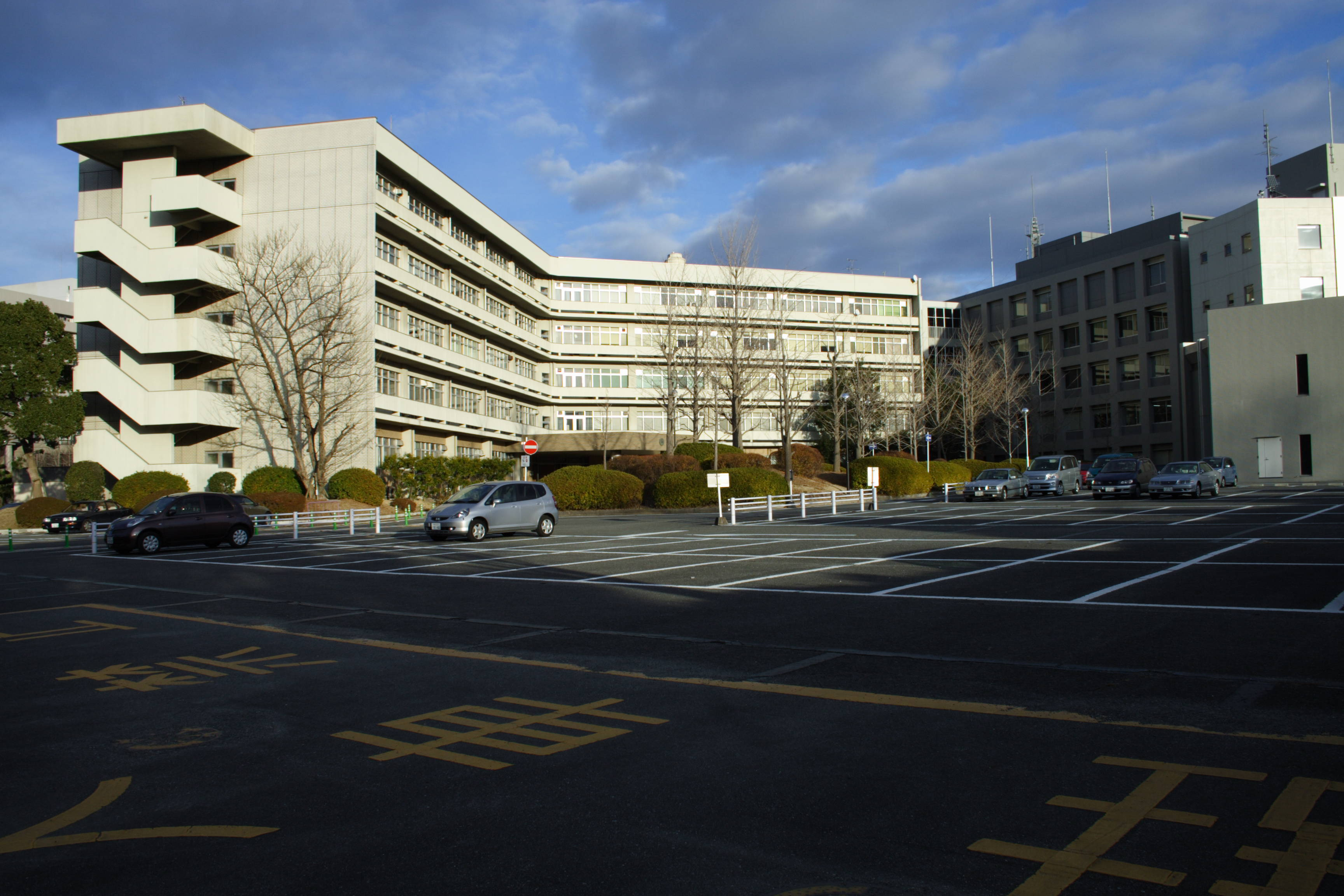 Buildings of Osaka University School of Human Science/大阪大学人間科学部（吹田キャンパス内）